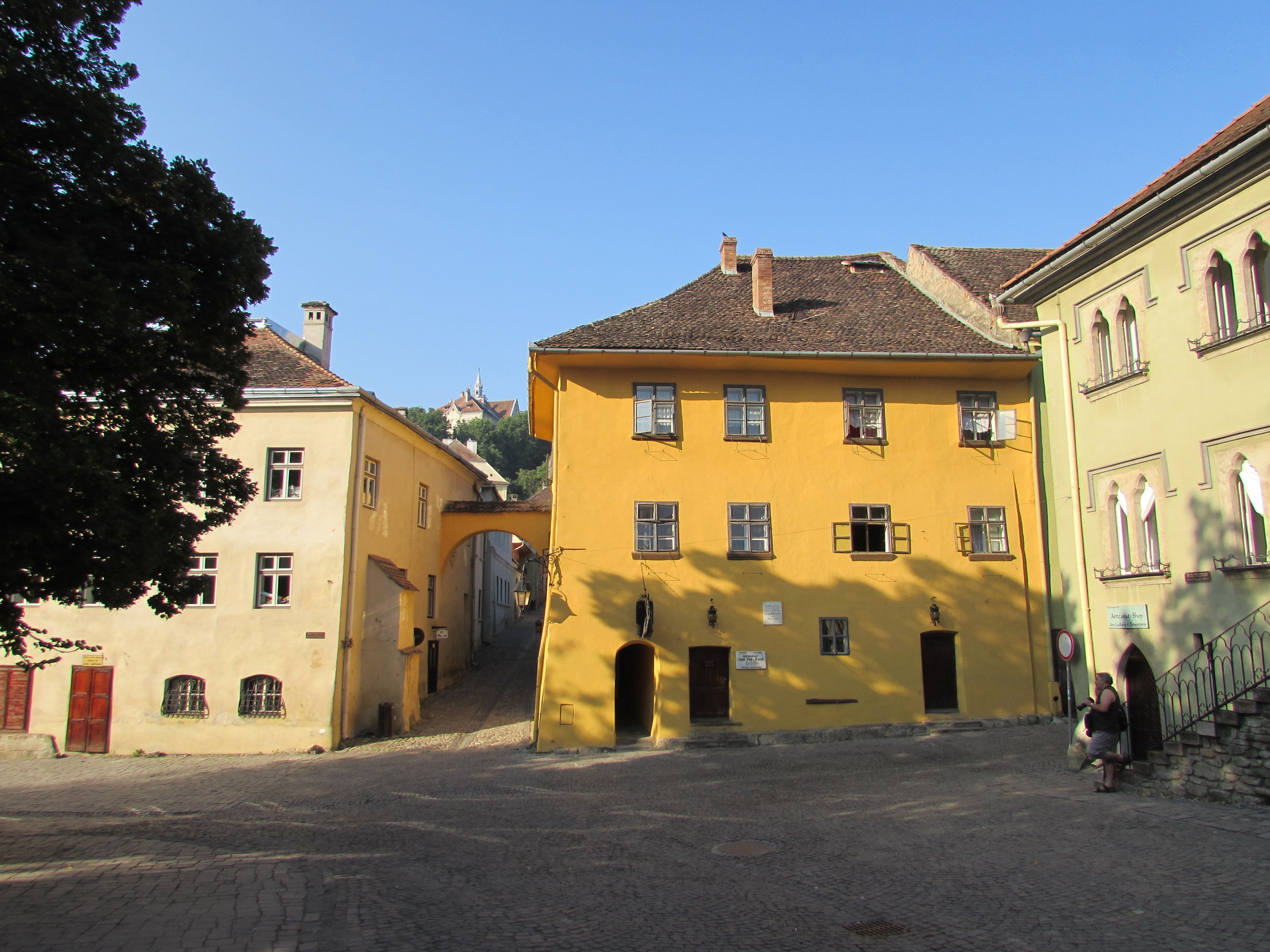 Vlad Dracul House in Sighișoara